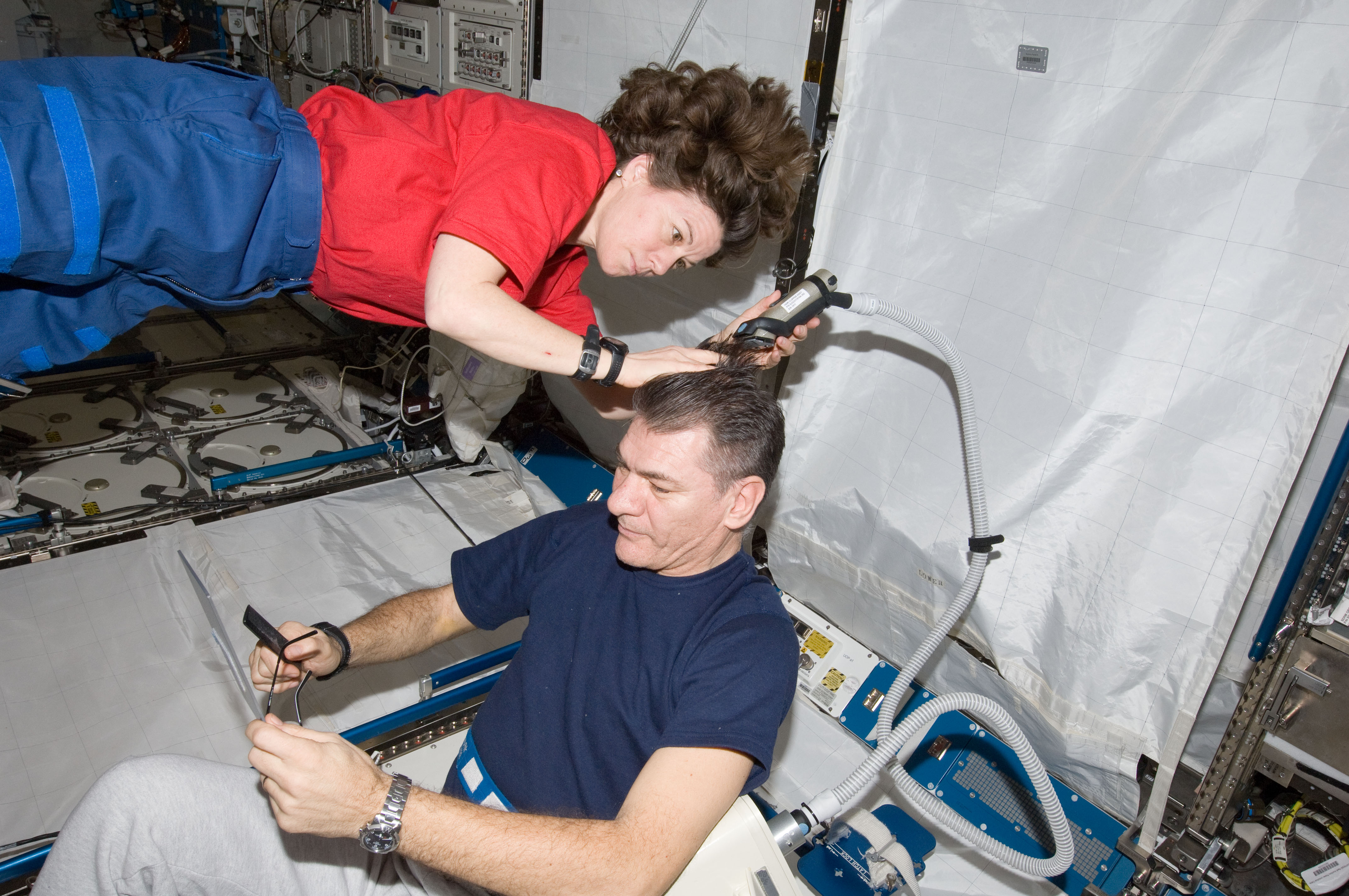 Haircut in ISS ISS026-E-017736 (15 Jan. 2011) NASA astronaut Catherine (Cady) Coleman assists European Space Agency astronaut Paolo Nespoli with a haircut in the Kibo laboratory on the International Space Station. The two Expedition 26 flight engineers used a vacuum cleaner (partially out of frame) to remove free-floating hair particles from the air.